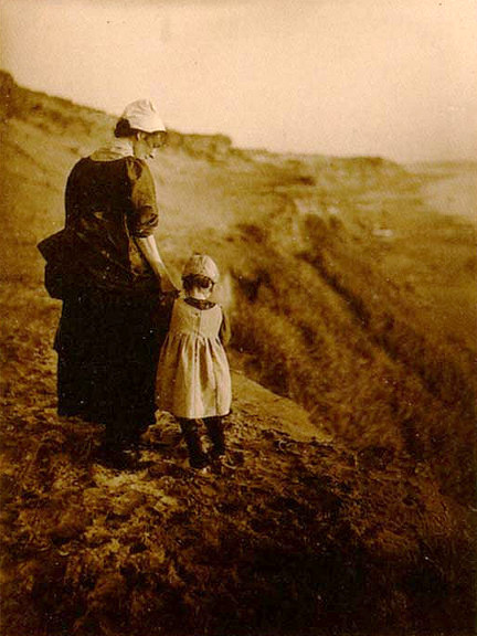 Myra Albert Wiggins, Edge of the Cliff, 1902, Platinum Print, 8.1 in x 6 in, Location of the photo is not stated, but is most likely on the California coastline. This photo was sold in an auction by in 2002. Using the immense landscape we saw in the survey era of photography, Wiggins shows a mother and a daughter walking along the edge of a cliff in her pictorial photograph appropriately titled Edge of the Cliff. We see the mother and daughter both wearing gowns and bonnets, suggesting their connection with the pioneer women from whom Wiggins was a descendant. The daughter walks on the outer edge of the cliff, with her head down and concentrating intensely on the task of walking, while the mother holds her hand and watches over protectively. The cliff is sharply in focus in the foreground, but blurs in the background showing the uncertain length of this walk. Only a tiny sliver of the ocean is shown in the uppermost right hand corner. This scene demonstrates possibly the rite of passage for the young girl, as she must learn to walk on the edge of danger and ahead into the unknown with caution, but with confidence.